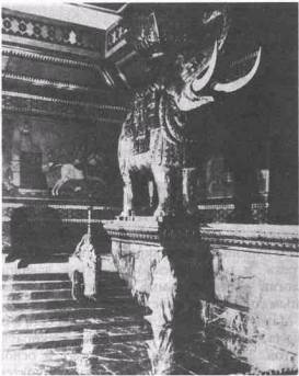 Film stills from Cabiria (1914)